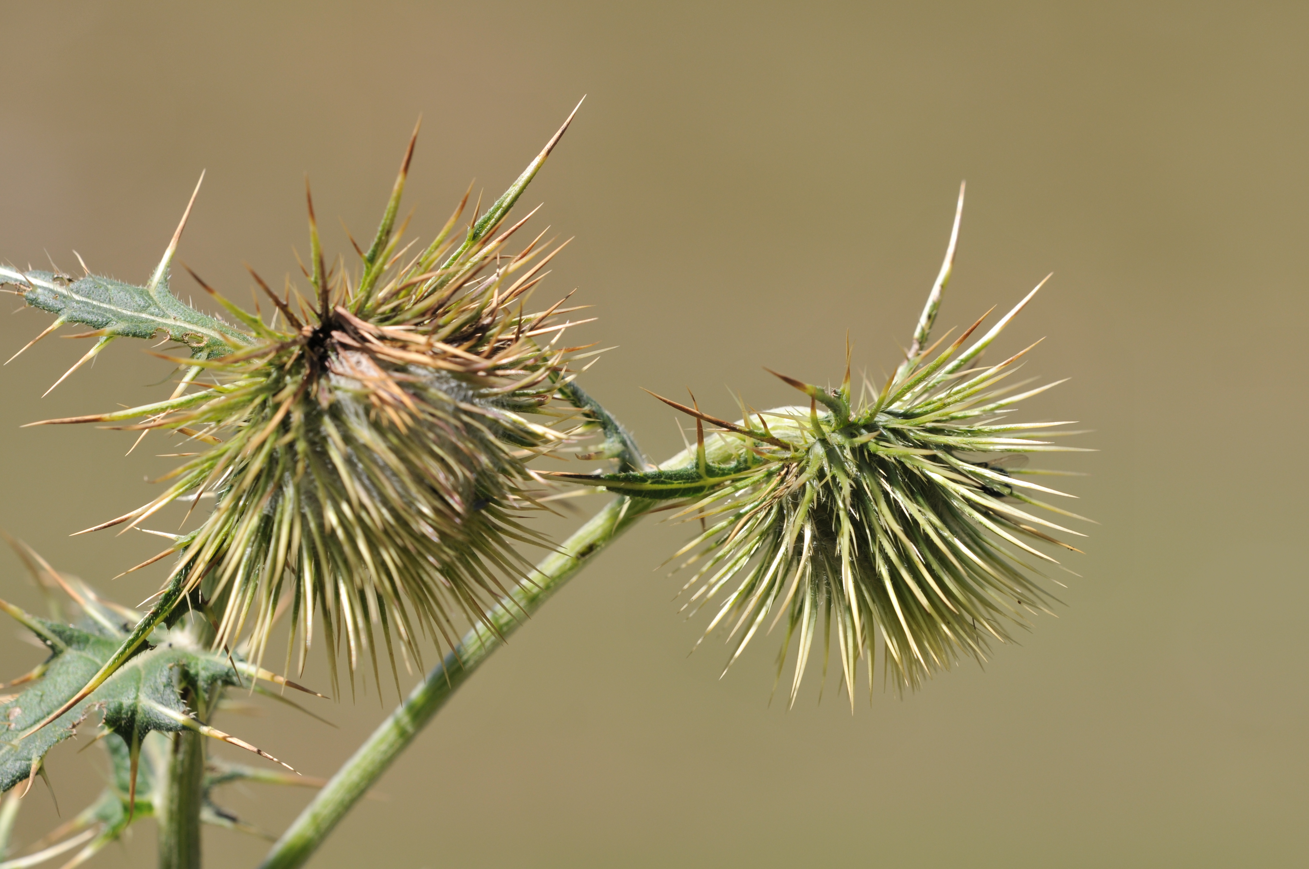 Flower of Rough-scaly Thistle (Cirsium trachylepis) in stony slopes in the northern side of Eğribel Pass.